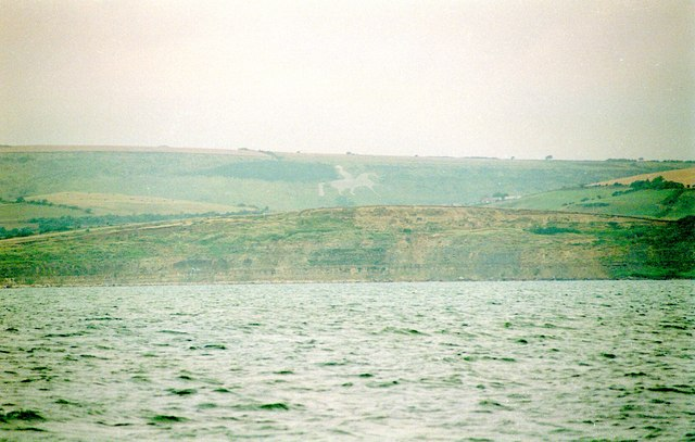 Broadrock. The Corallian cliffs at Broadrock west of Redcliff Point, backed by the Osmington White Horse SY7184. Taken from the sea off Weymouth on a grey day